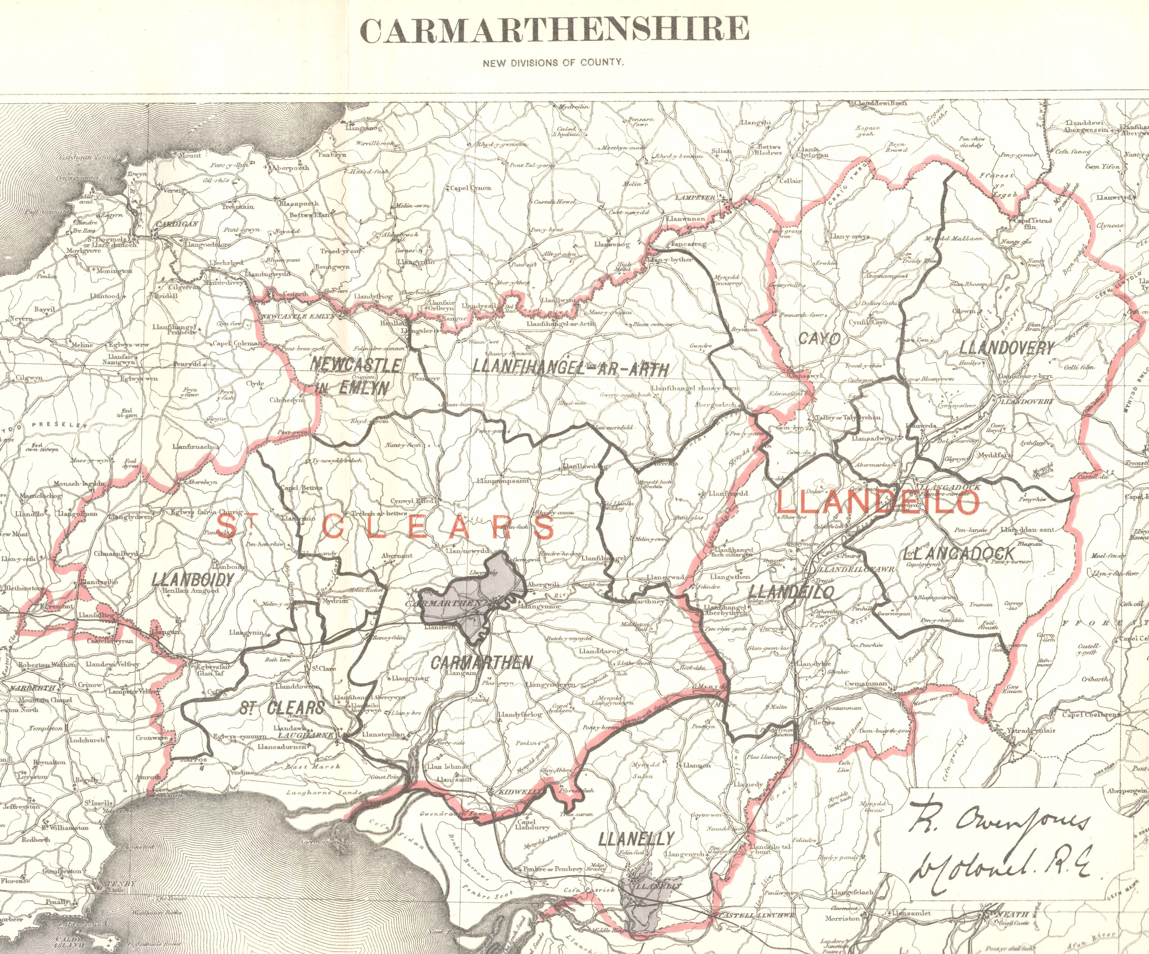 1885 Boundary Commission Map of Carmarthenshire showing new boundaries. Other information originally Printed by Eyre and Spottiswoode, London, 1885.